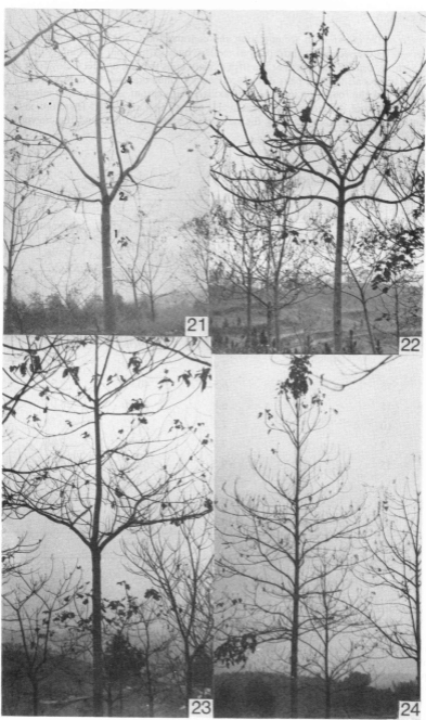 ( Tomentosa , Elongata , Fortunei )